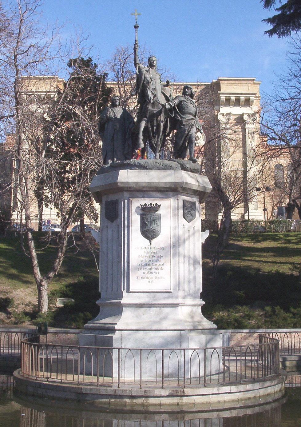 Monument to Isabella of Castile, the Catholic (1451–1504), at the Paseo de la Castellana (avenue) in Madrid (Spain).